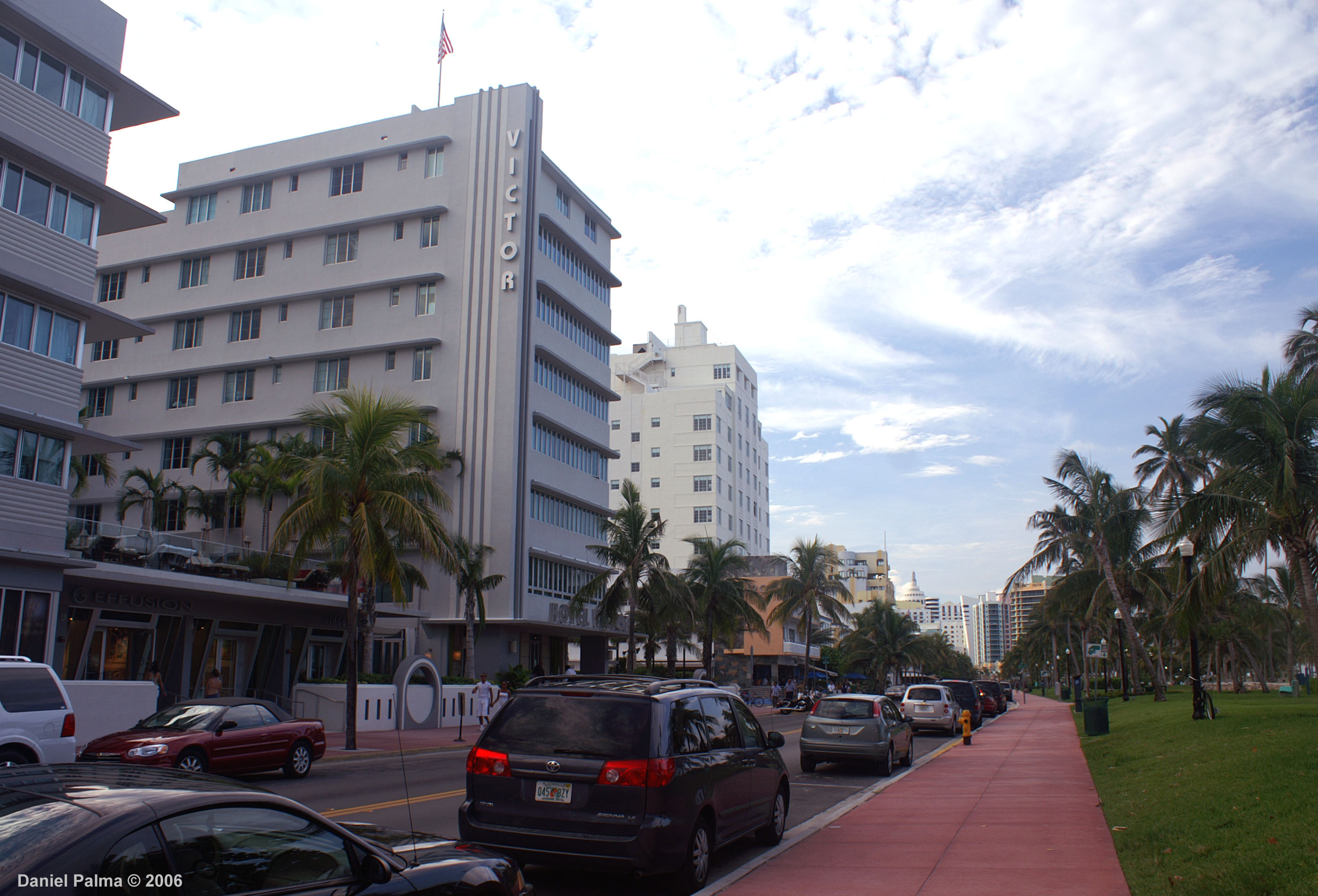 Ocean Drive - South Beach, View towards the north with the Victor Hotel on the left of the picture.